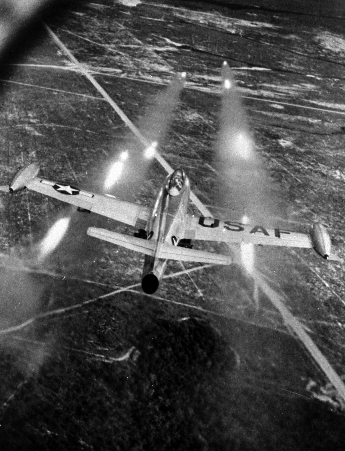 An F-84E attacks a ground target with rockets.